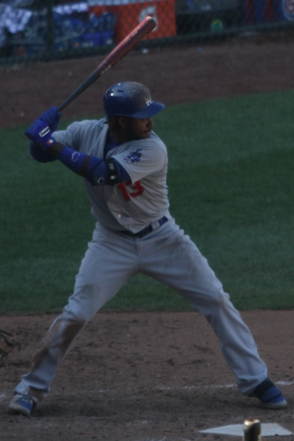 Hanley Ramirez for the 2014 Los Angeles Dodgers against the 2014 Chicago Cubs at Wrigley Field.